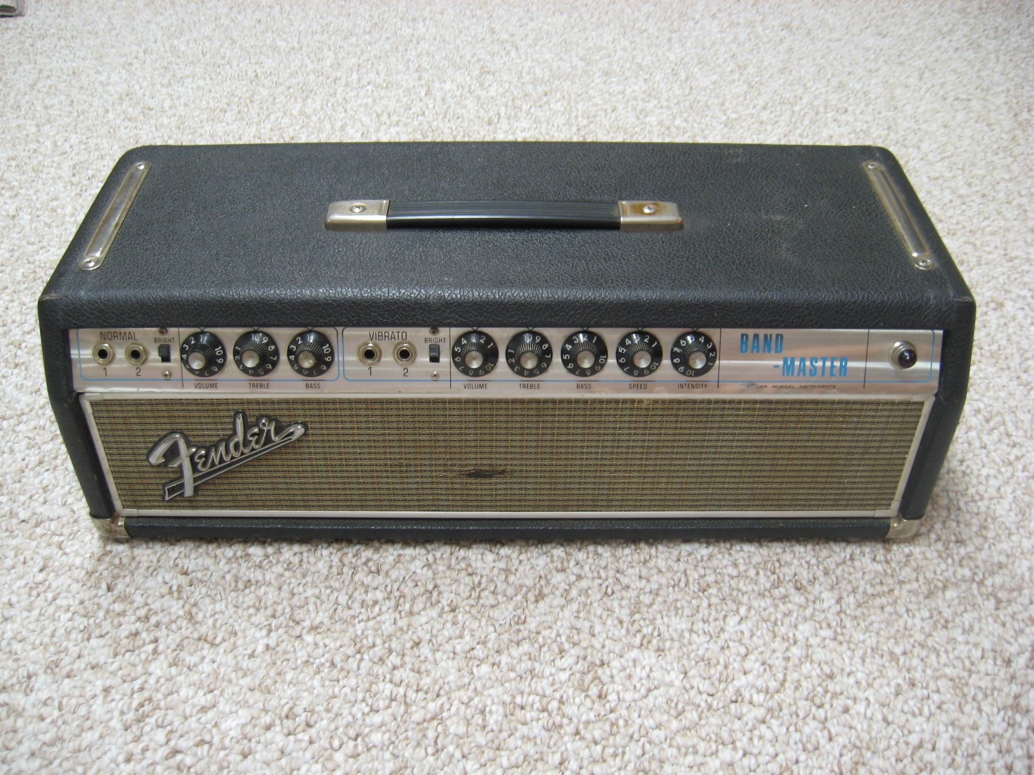 1968 Fender Bandmaster amp with AB763 circuit (front)